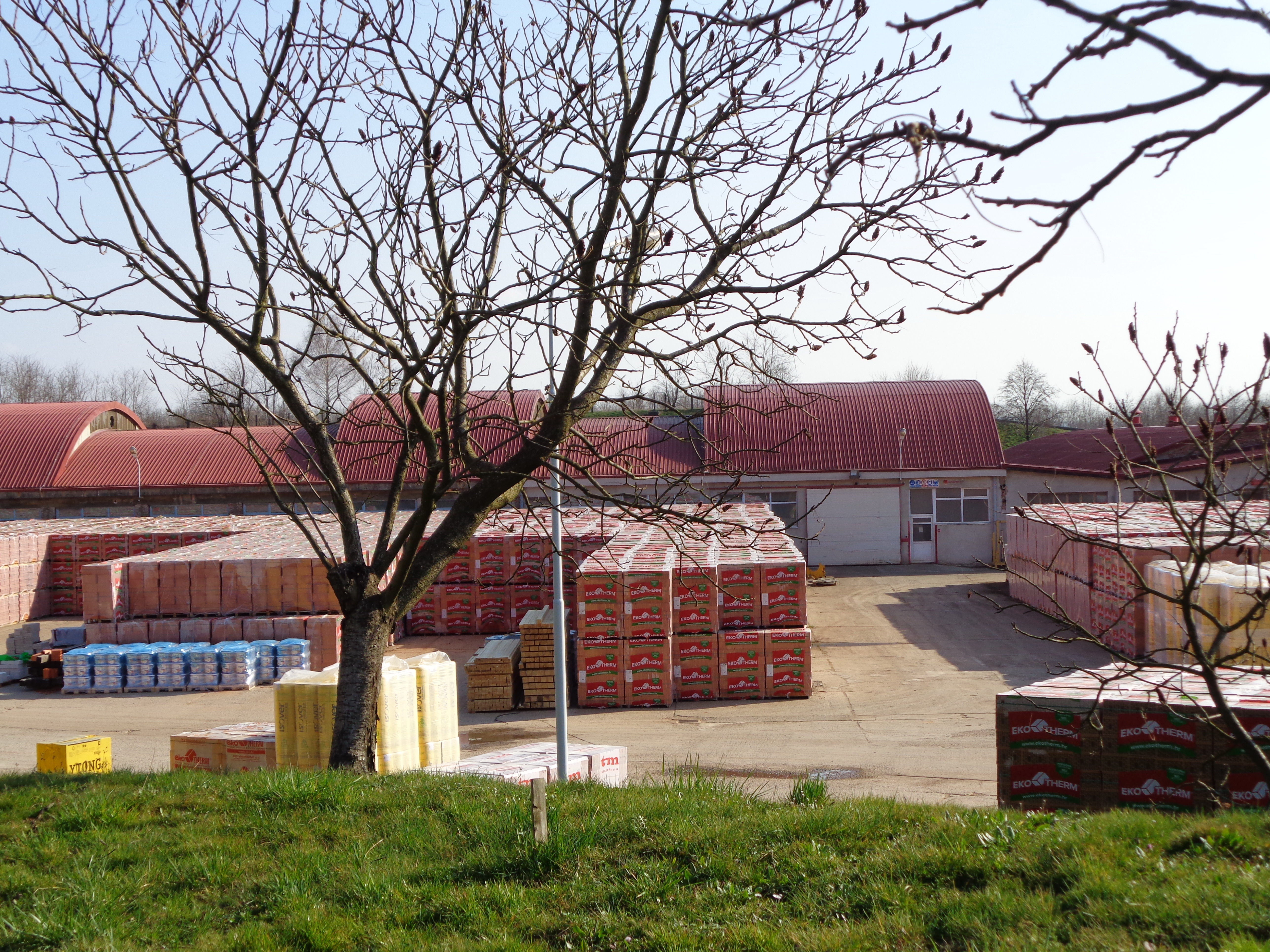 EKO Međimurje brick factory in Šenkovec, Medjimurie County, Croatia - old production hallsHrvatski: EKO Međimurje, ciglana u Šenkovcu, Međimurska županija, Hrvatska - stare proizvodne hale